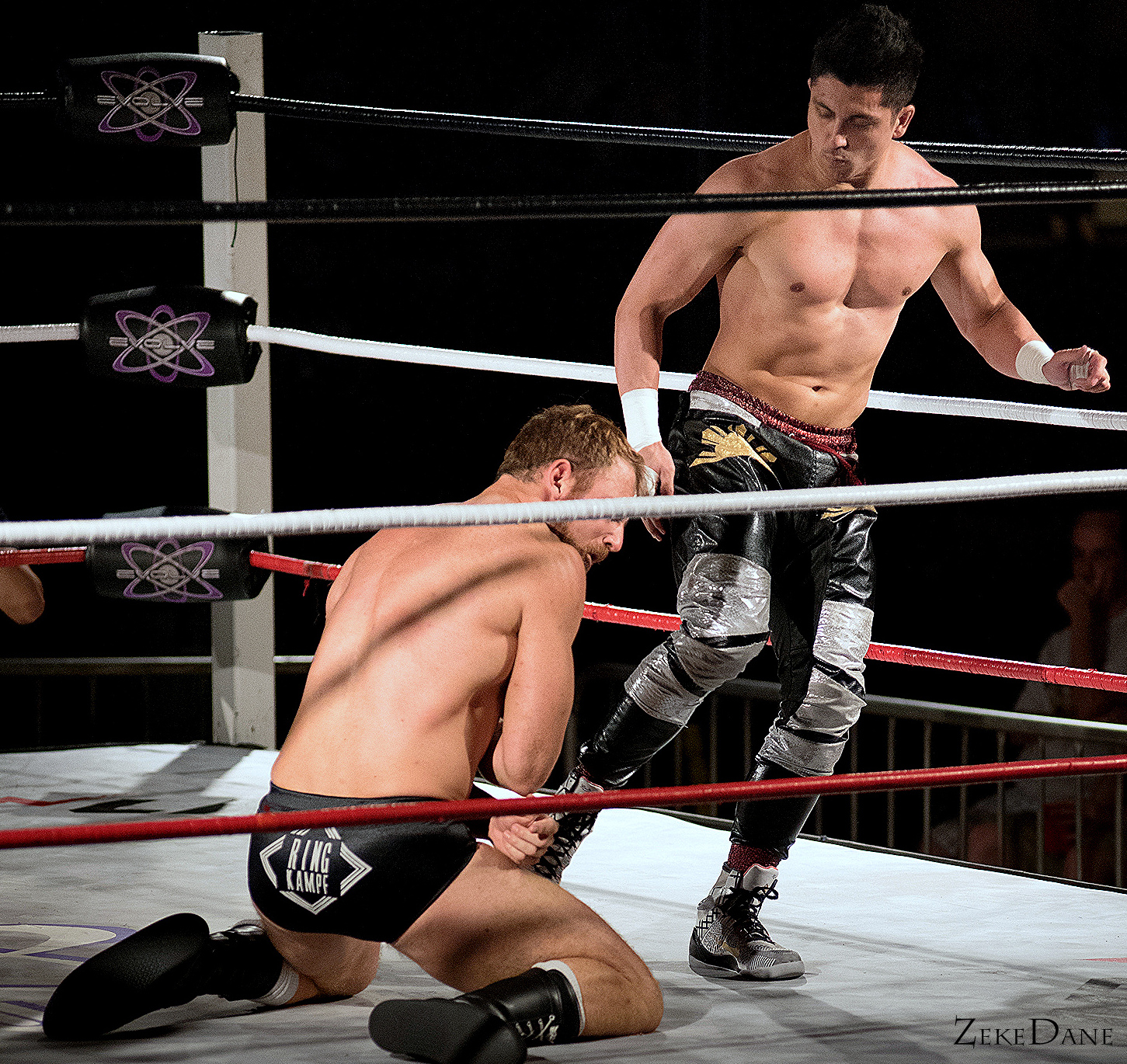 At a 2016 EVOLVE wrestling show in Melrose Massachusetts against Timothy Thatcher.